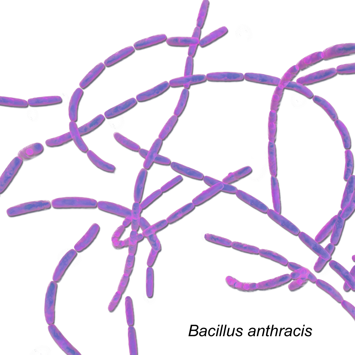 Bacillus Anthracis. See a full animation of this medical topic.